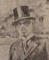 Tanaka Takeo, the tenth Administrative Superintendent of Korea